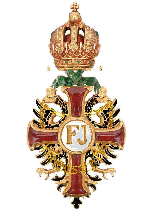 Franz-Joseph-Orden Offizier Order of Francis-Joseph